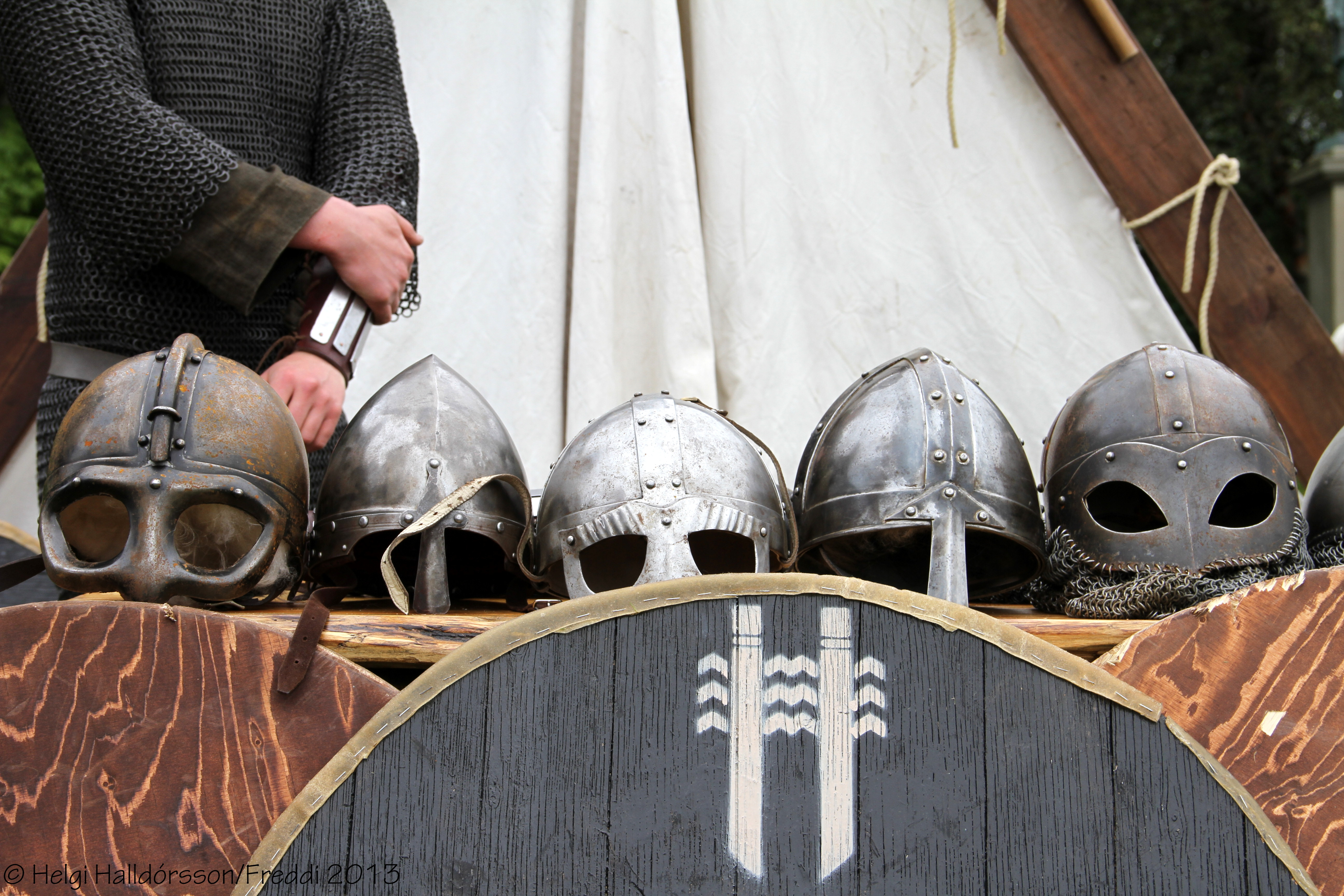 Today there is only one known example of a complete Viking helmet in existence. This Viking helmet was excavated on a farm called Gjermundbu in Ringerike in central Norway. Gjermundbu is located in Haugsbygda, a village in northeast of Hønefoss, in Buskerud, Norway. The helmet dates to the 10th century. This helmet was made of iron and was in the shape of a rounded or peaked cap made from four plates after the spangenhelm pattern. This helmet has a rounded cap and has a "spectacle" guard around the eyes and nose which formed a sort of mask, in addition to a possible mail aventail. The eye guard in particular suggests a close affinity with the earlier Vendel period helmets. From runestones and other illustrations, it is known that the Vikings also wore simpler helmets, often peaked caps with a simple noseguard. Viking helmets have been excavated from only three sites: Gjermundbu in Norway, Tjele Municipality in Denmark and Lokrume parish on Gotland Island, Sweden. The one from Tjele consists of nothing more than rusted remains of a helmet similar to the Gjermundbu helmet, the same goes for the one from Gotland. It is possible that many of the Viking helmets were made from hardened leather and ironstrips, since many Icelandic stories and Scandinavian picture stones tell and show warriors with helmets. It is also possible that helmets were inherited, instead of buried with the deceased, and went from father to son, and therefore stayed in a family for generations before eventually being turned into scrap metal or something else, like an axe.